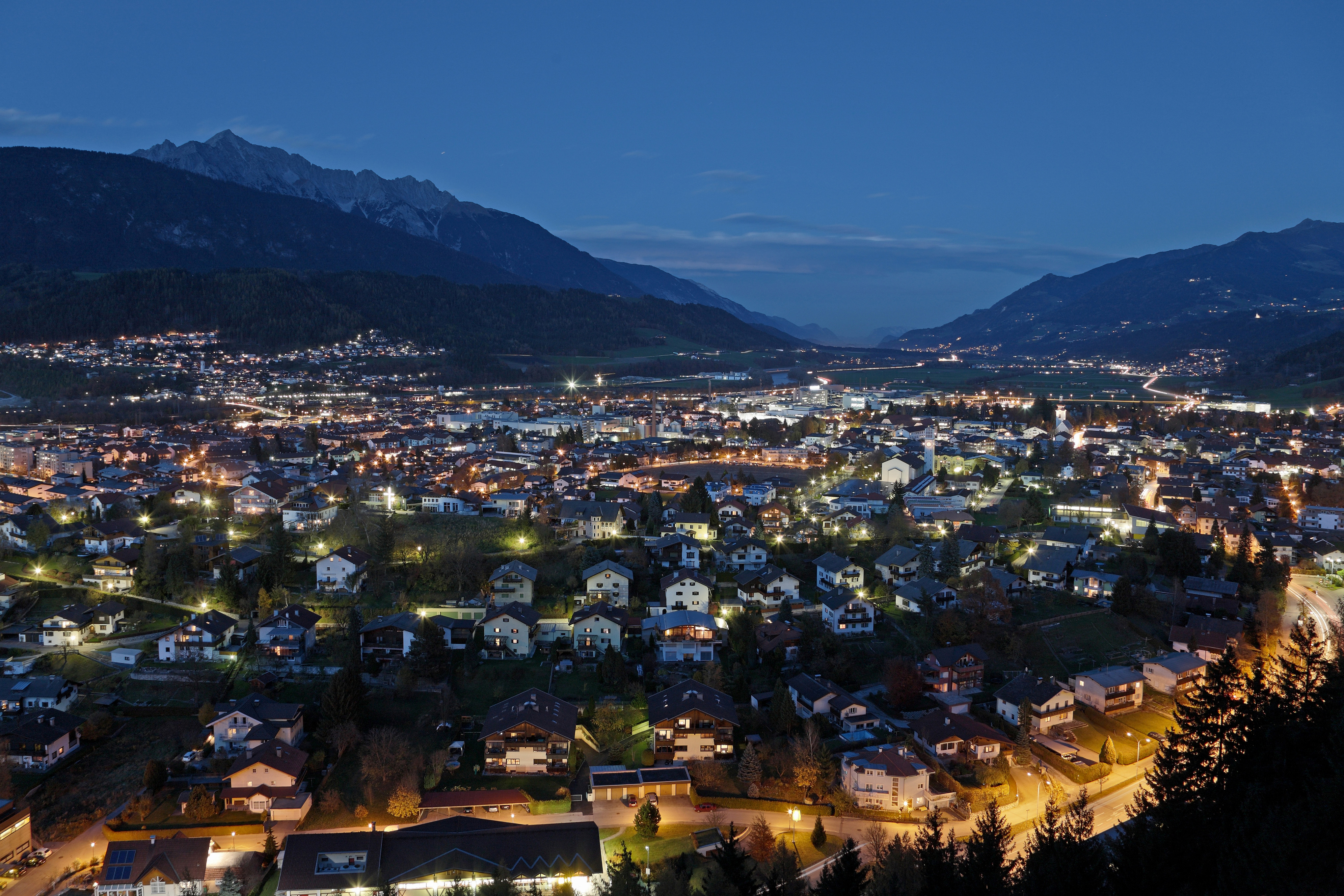 Wattens Tyrol Austria